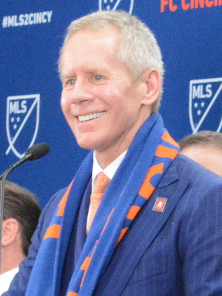 This photo was taken at an FC Cincinnati (FCC) event at Rhinegeist Brewery in Over-the-Rhine, Cincinnati, Ohio, USA on May 29, 2018. At the event, Major League Soccer commissioner Don Garber officially awarded an MLS franchise to FCC. Other speakers at the event included FCC general manager Jeff Berding, FCC owner and CEO Carl Lindner III, Cincinnati mayor John Cranley, and ESPN soccer commentators Adrian Healey and Taylor Twellman. The event was simultaneously livestreamed to a public party at Fountain Square in downtown Cincinnati.